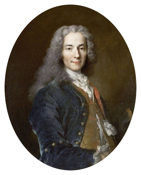 Depicted person: Voltaire – French writer, historian, and philosopher